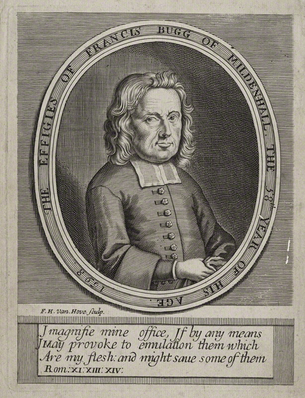 Portrait of Francis Bugg (1640–1727), English writer against Quakerism.